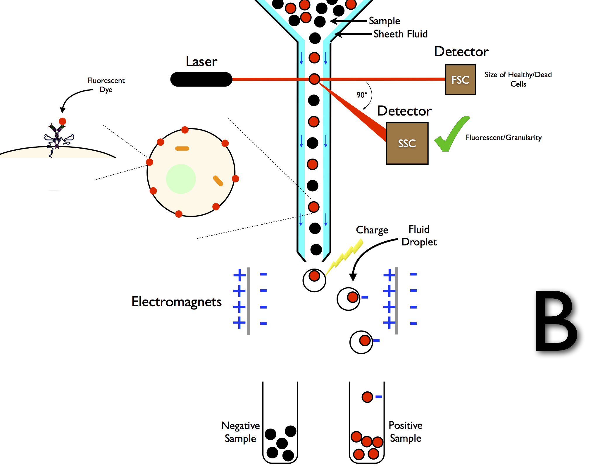 Fluorescence Assisted Cell Sorting (FACS) showing positive cell selection.